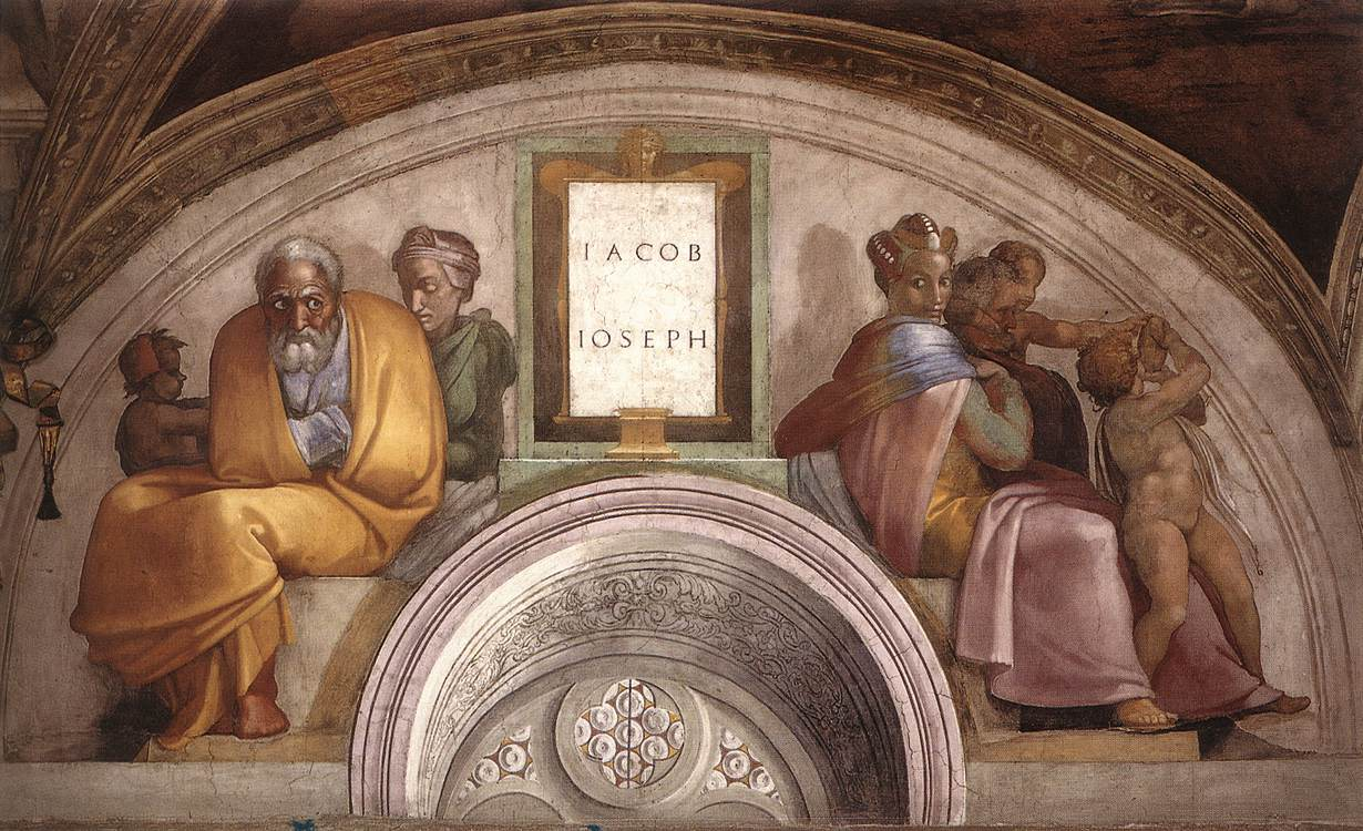 fresco painted by Michelangelo at the Sistine Chapel in the Vatican between 1508 to 1512